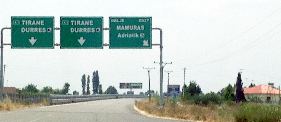 National Road SH1 in Albania, Mamurras exit